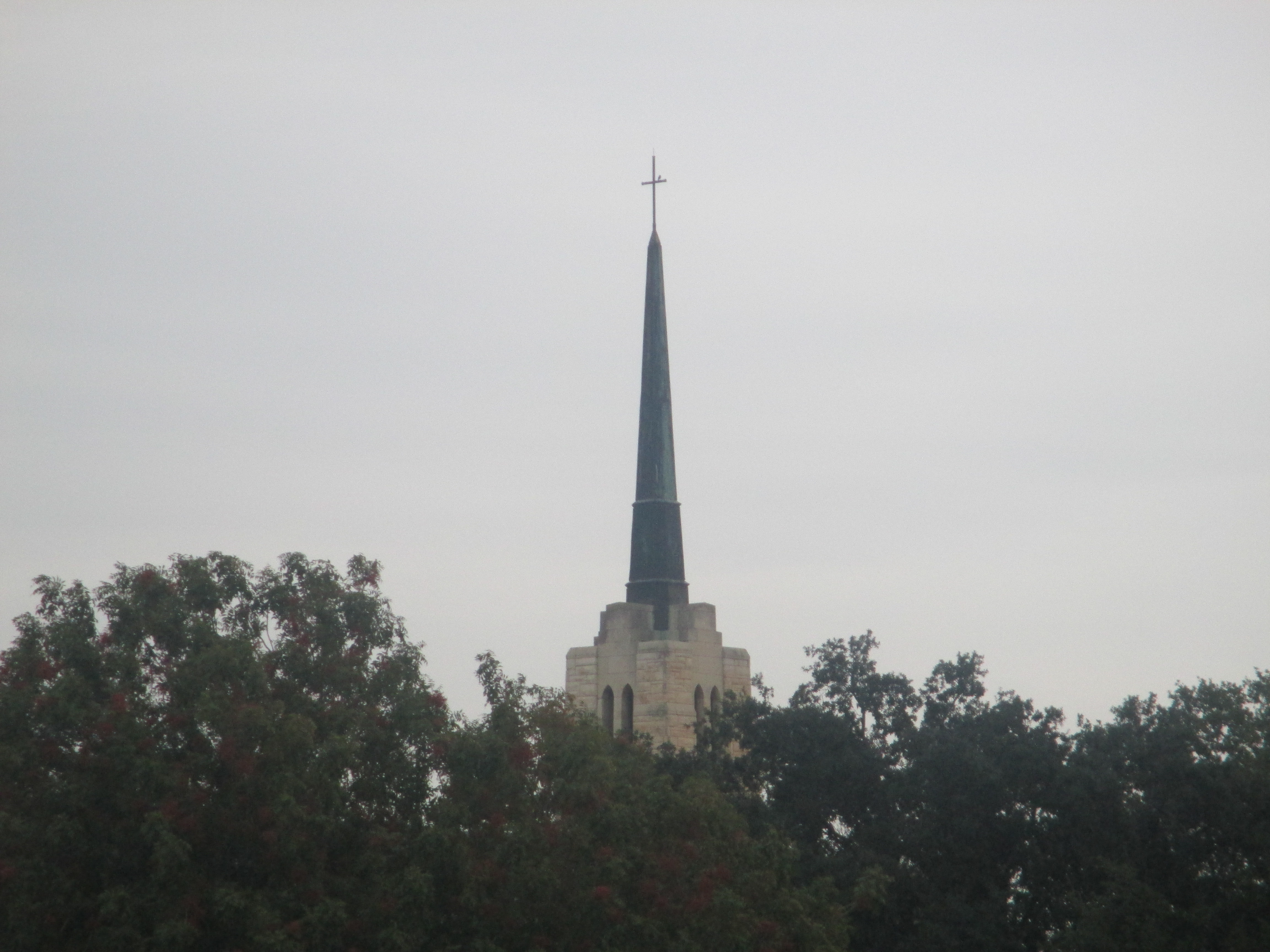 I took photo with Canon camera of steeple of Abiding Presence Chapel at Texas Lutheran University in Seguin, TX.